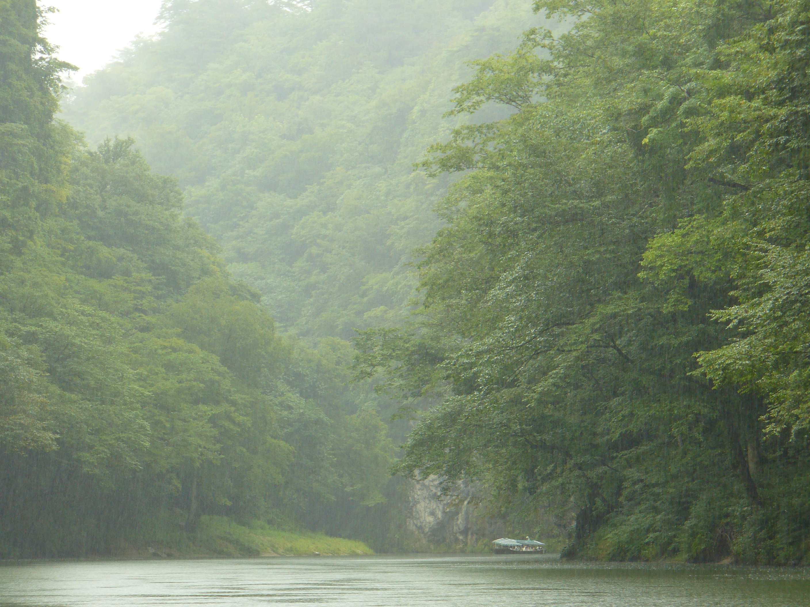 Satetsu River boat tours at Geibi-kei